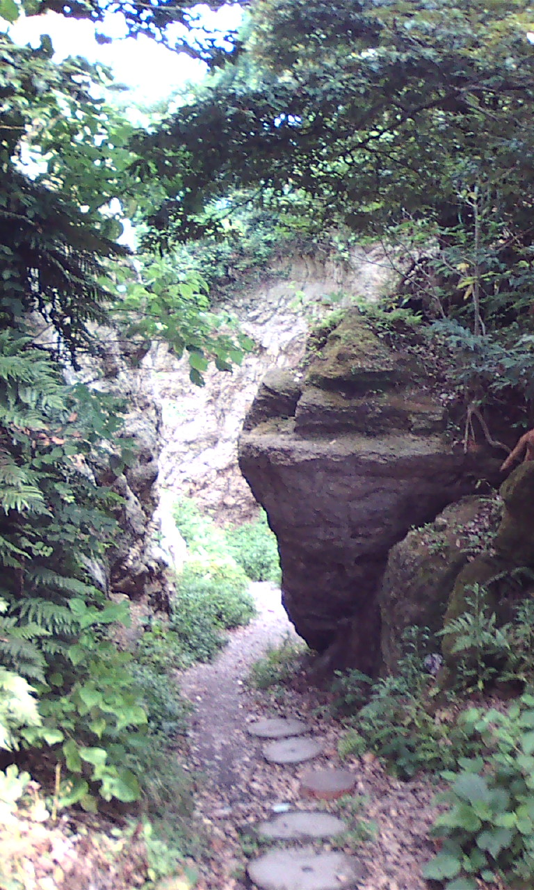 The Nagoe Pass of Kamakura's Seven Entrances